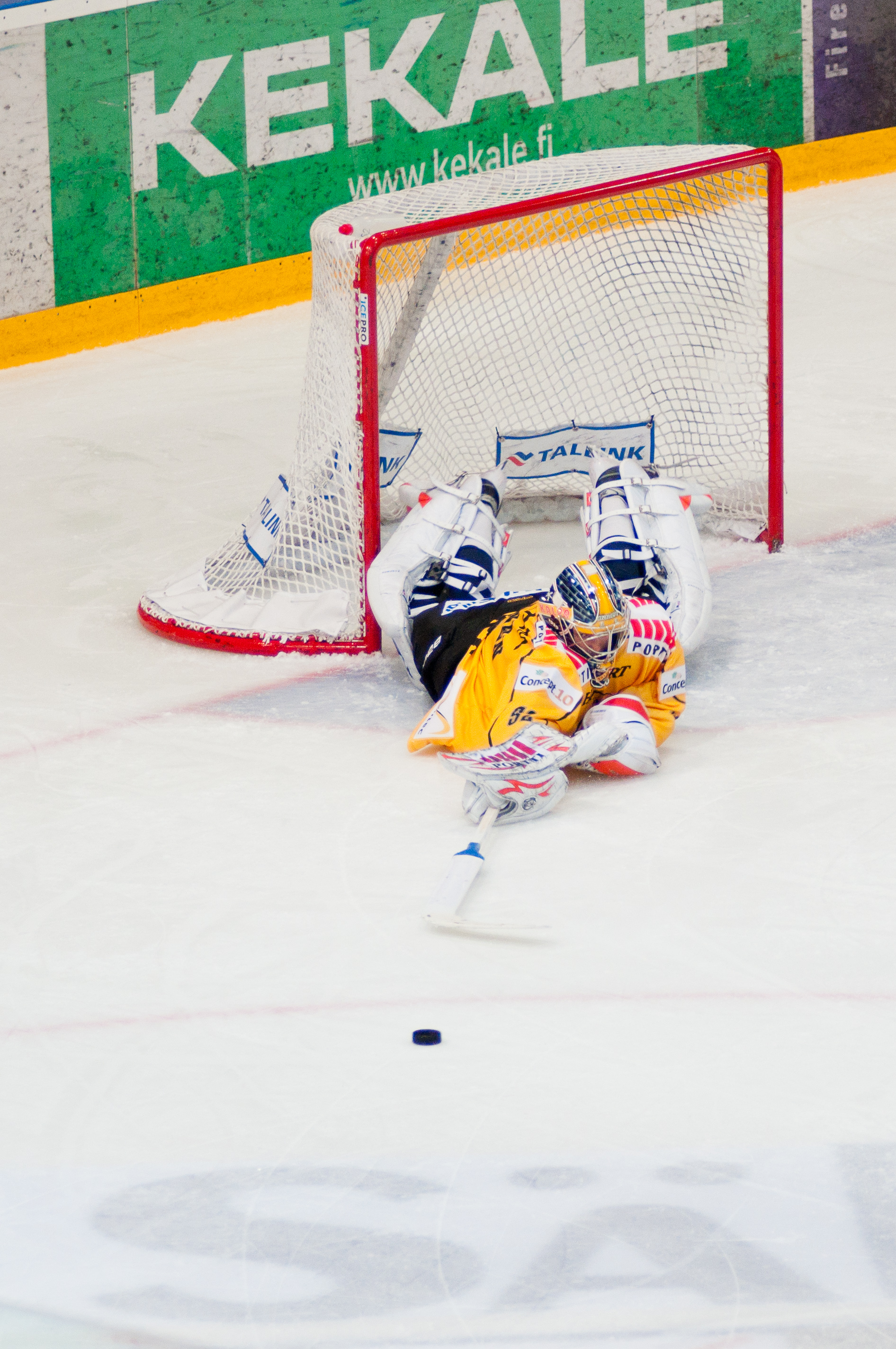 Finnish ice hockey goaltender Mikko Koskinen playing for KalPa Kuopio in Lappeenranta, Finland.